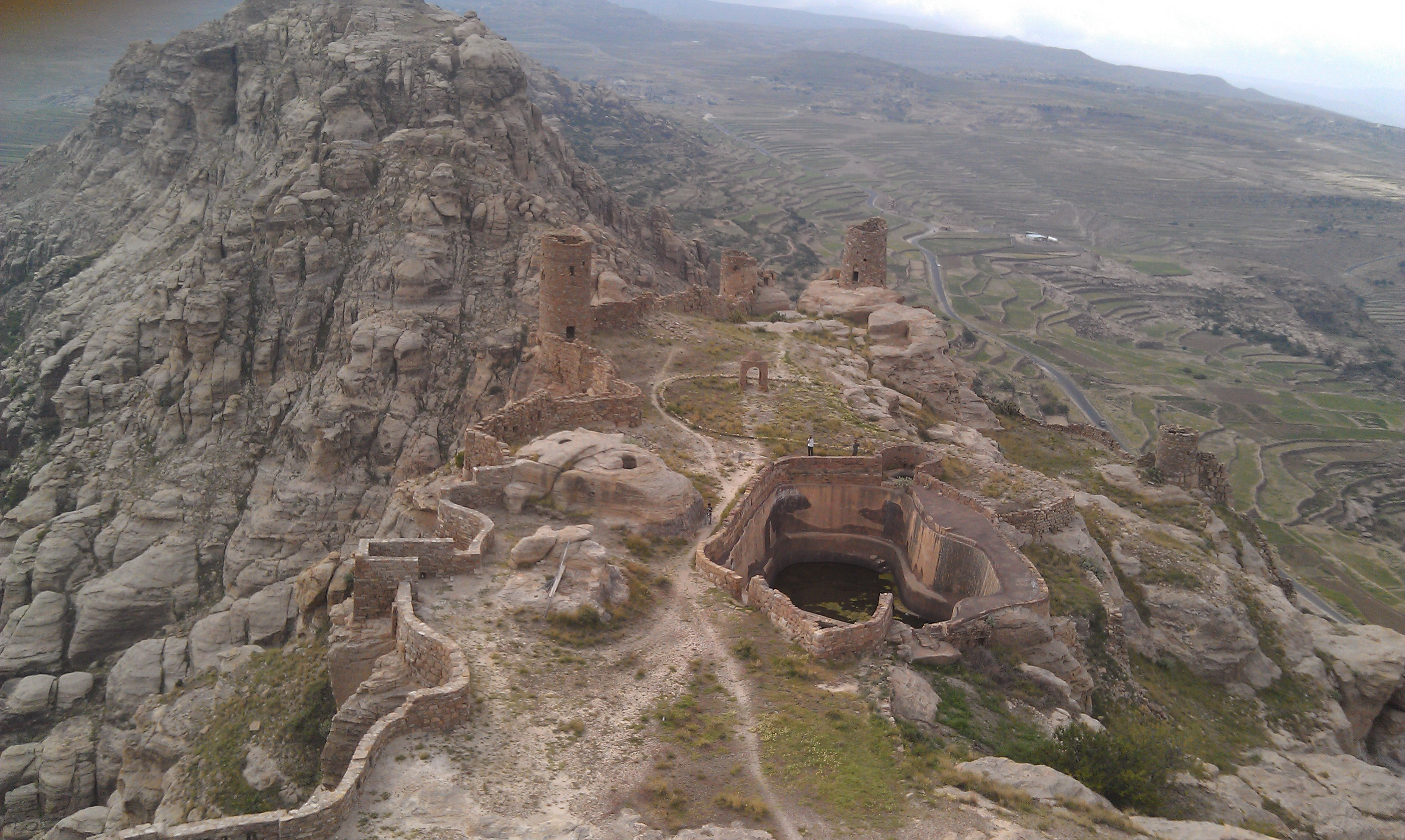 Thula fortification in Thula, Sana'a, Yemen.